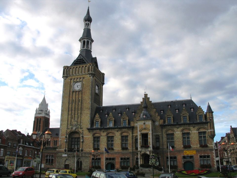 Town Hall and belfry of Bailleul (Nord, France).